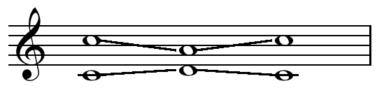 Not parallel fifths on C (octave), to D (fifth), back to C (octave). Created by Hyacinth (talk) 01:47, 29 January 2012 (UTC) using Sibelius 5.